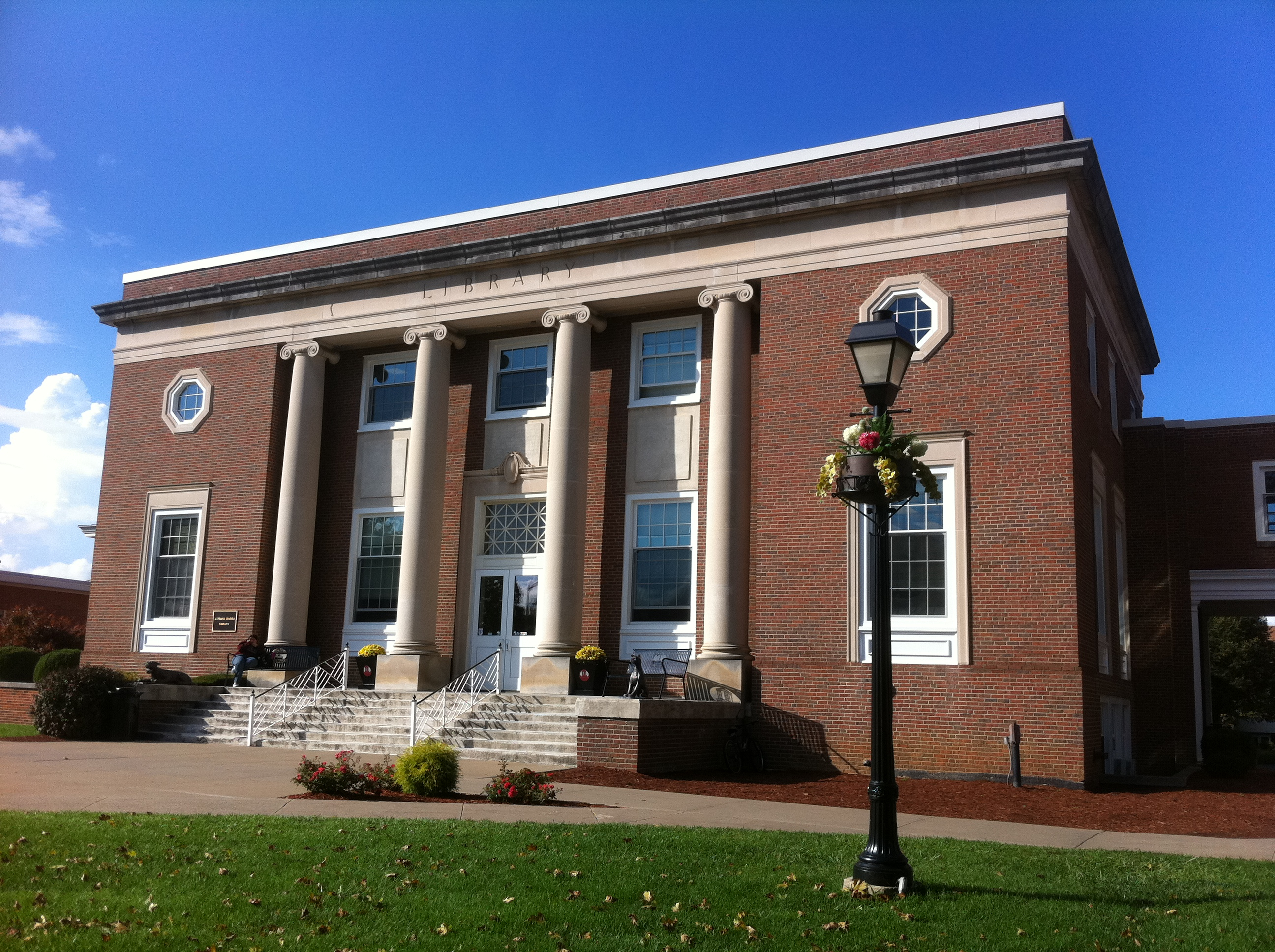 Concord University located in Athens, West Virginia USA. Library Building